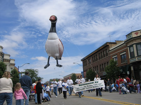 Libertyville is home to the Libertyville Sunrise Rotary Club's annual fundraiser, The Goose Is Loose Festival.